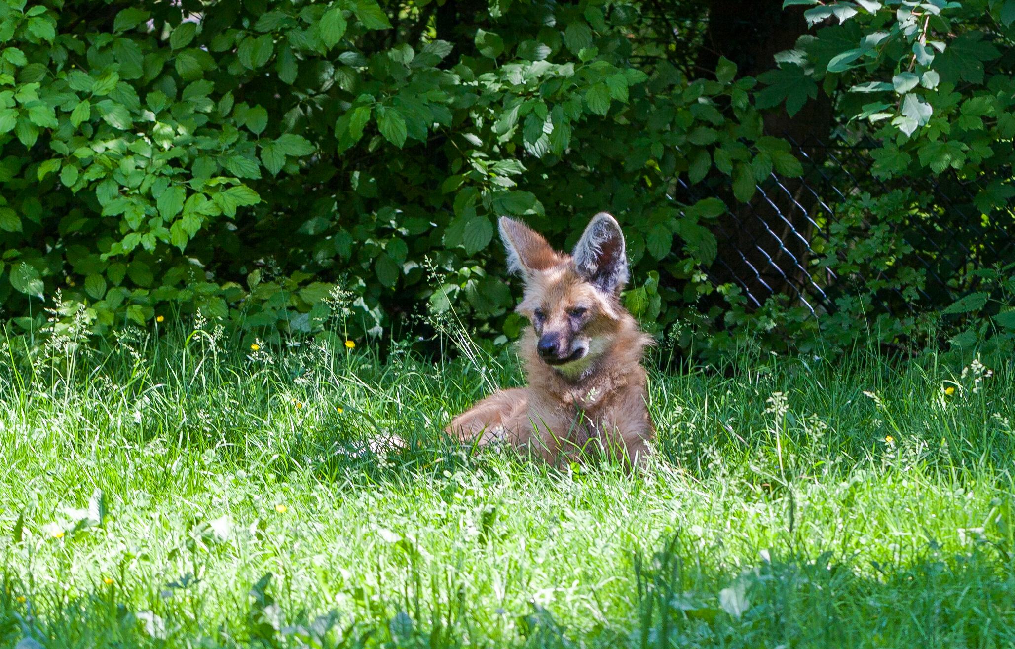 Maned wolf (Chrysocyon brachyurus), Tierpark Hellabrunn, Munich, Germany